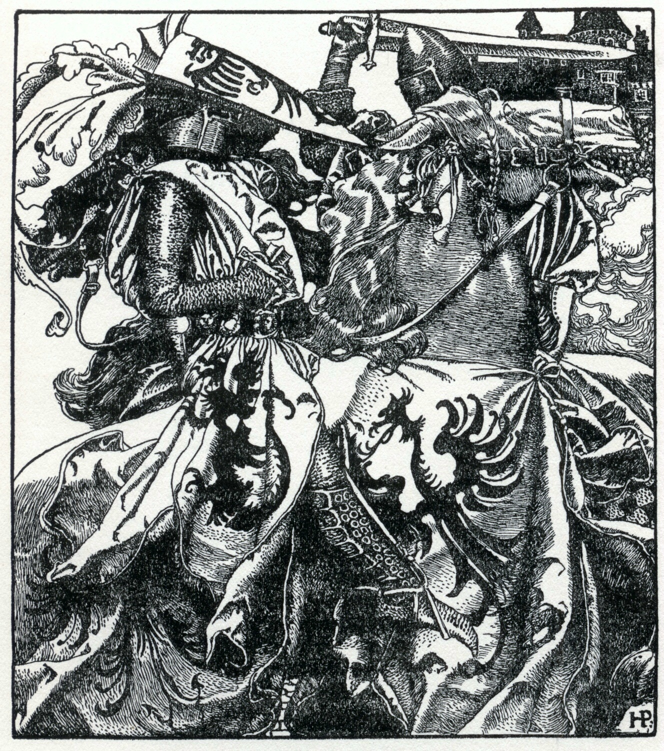 Howard Pyle illustration from the 1903 edition of The Story of King Arthur and His Knights scanned and archived at where it was marked as Public Domain.